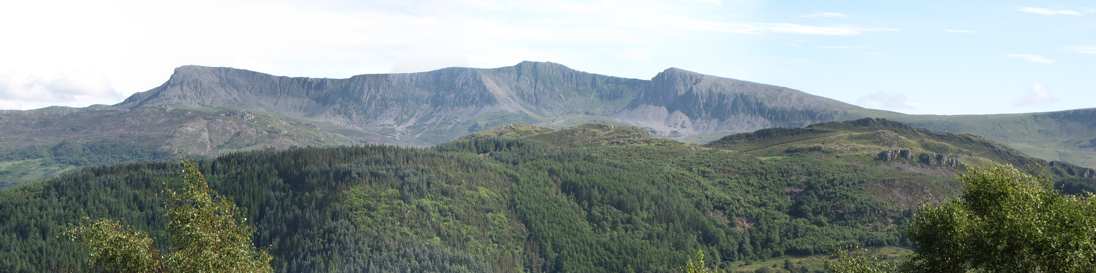 Cadair Idris Northern face.